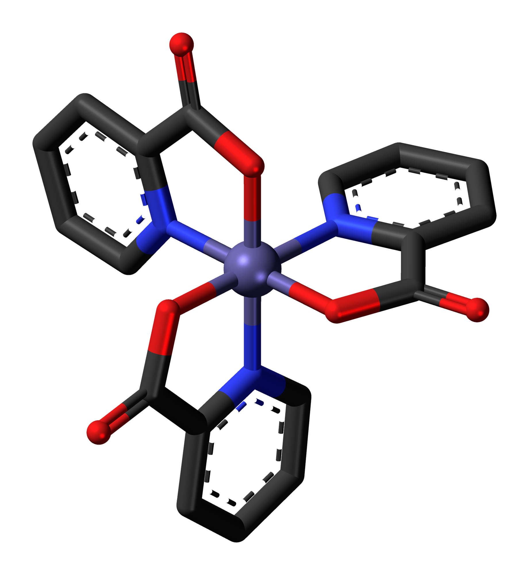 Skeletal stick model (hydrogen atoms omitted) of the Chromium(III) picolinate complex, used as a nutritional supplement to treat chromium deficiency. Colour code: Carbon, C: black Oxygen, O: red Nitrogen, N: blue Chromium, Cr: grey-blue